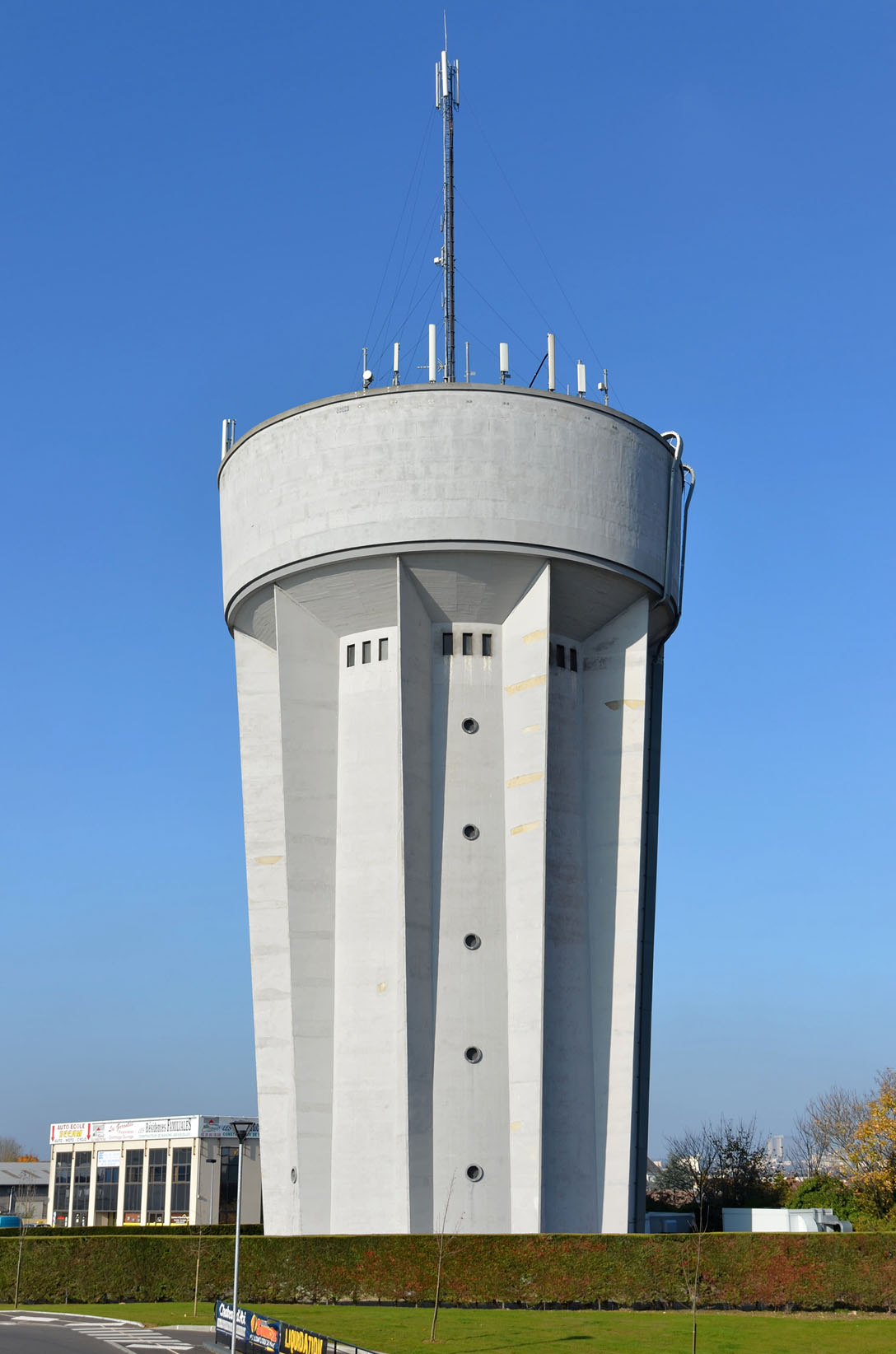 Water tower in Mondeville, France